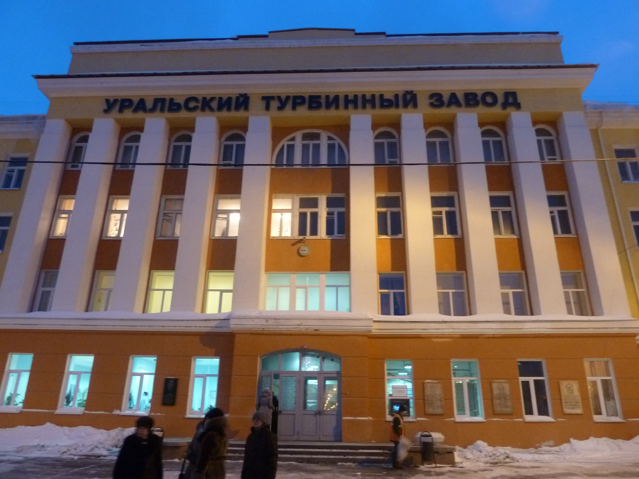 Ural Turbine Plant, Administrative Building